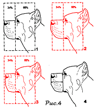 super